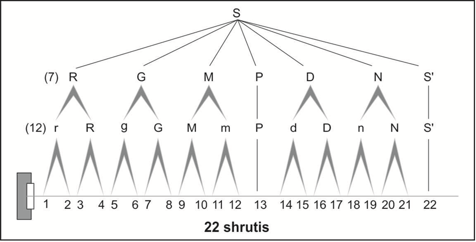 Evolution of 22 Shrutis from Shadja (Fundamental) and their natural arrangement on a string